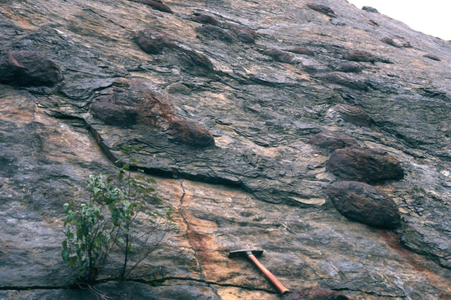 Concretions of the Llewellyn Formation in the south wall of the Bear Valley Strip Mine, located west of Shamokin in Northumberland County, Pennsylvania. Sept. 1998. Rock hammer for scale.